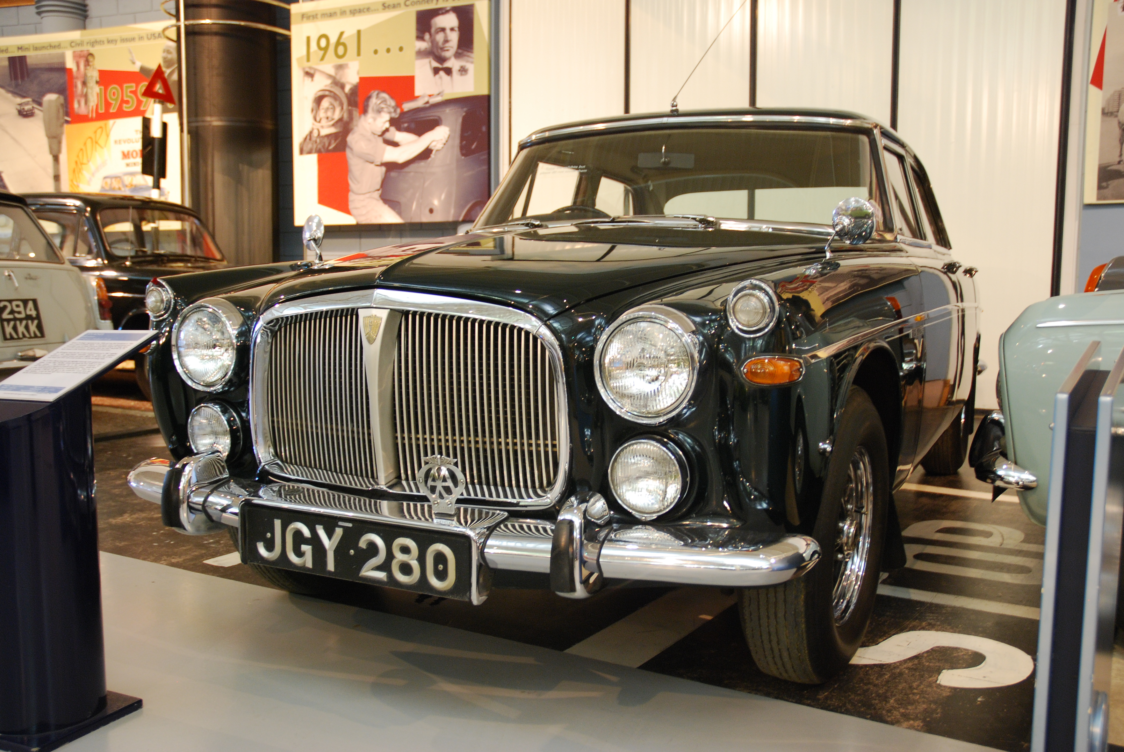 Heritage Motor Centre,Oct 2008